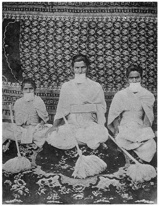 Monks belonging to Sthanakvasi sect of Jainism. Considered to be in public domain as it was published first in 1916. The book is available at